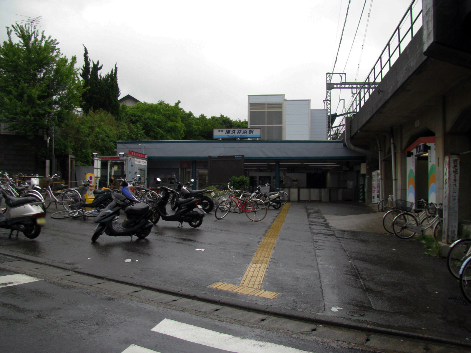 This photo is Tsukuihama Station on Keikyu Kurihama Line.